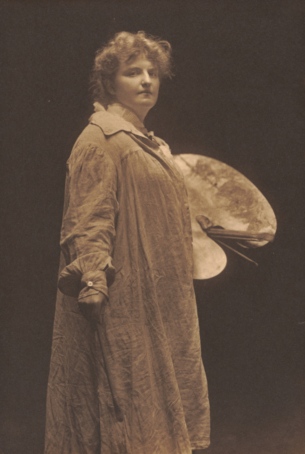 Portrait of Katherine Dreier holding an artist's palette.